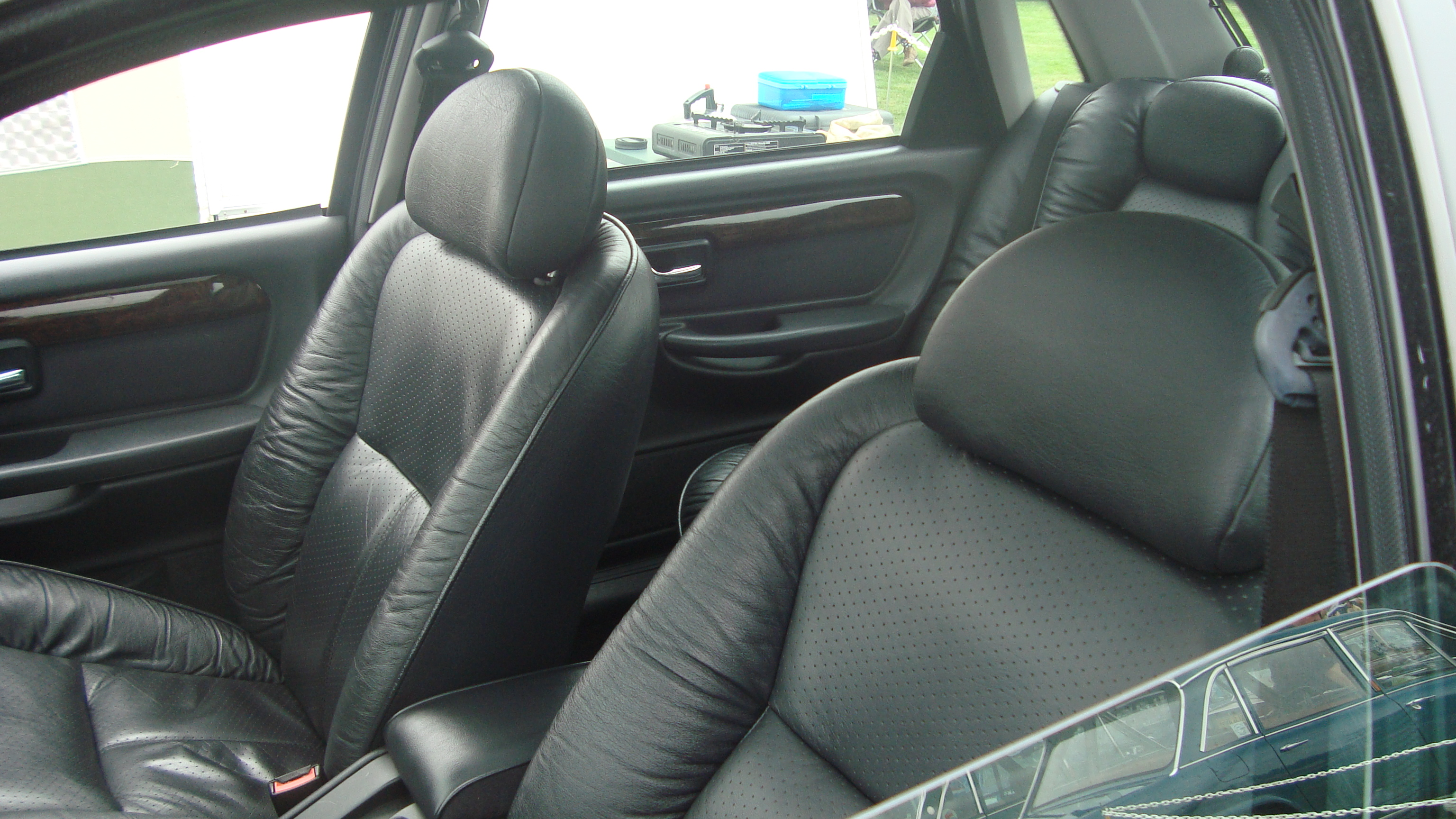 My favourite part of the Scorpio